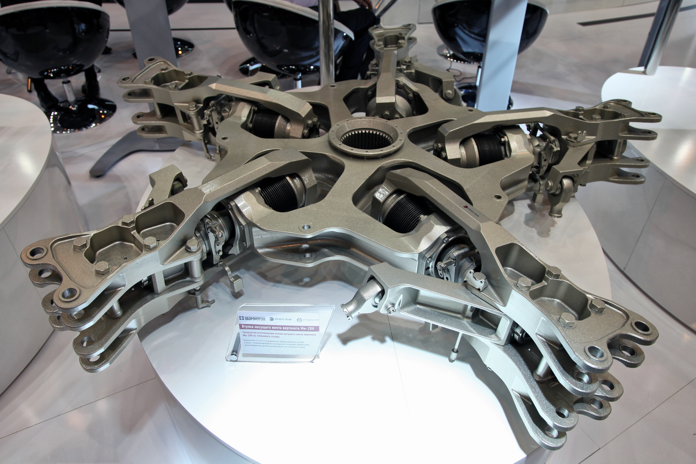 Mi-28N rotor head at Engineering technologies international forum - 2012